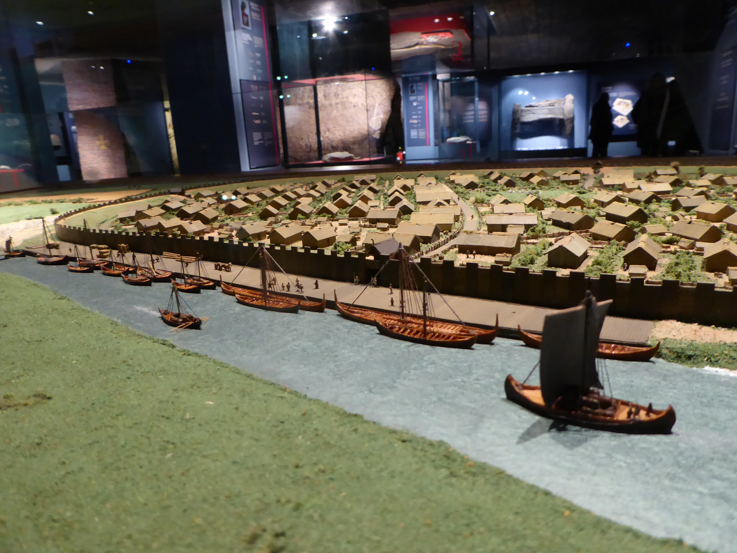 Model in Vikingemuseet in Aarhus in Denmark showing how Aarhus may have looked like in the Viking Age.